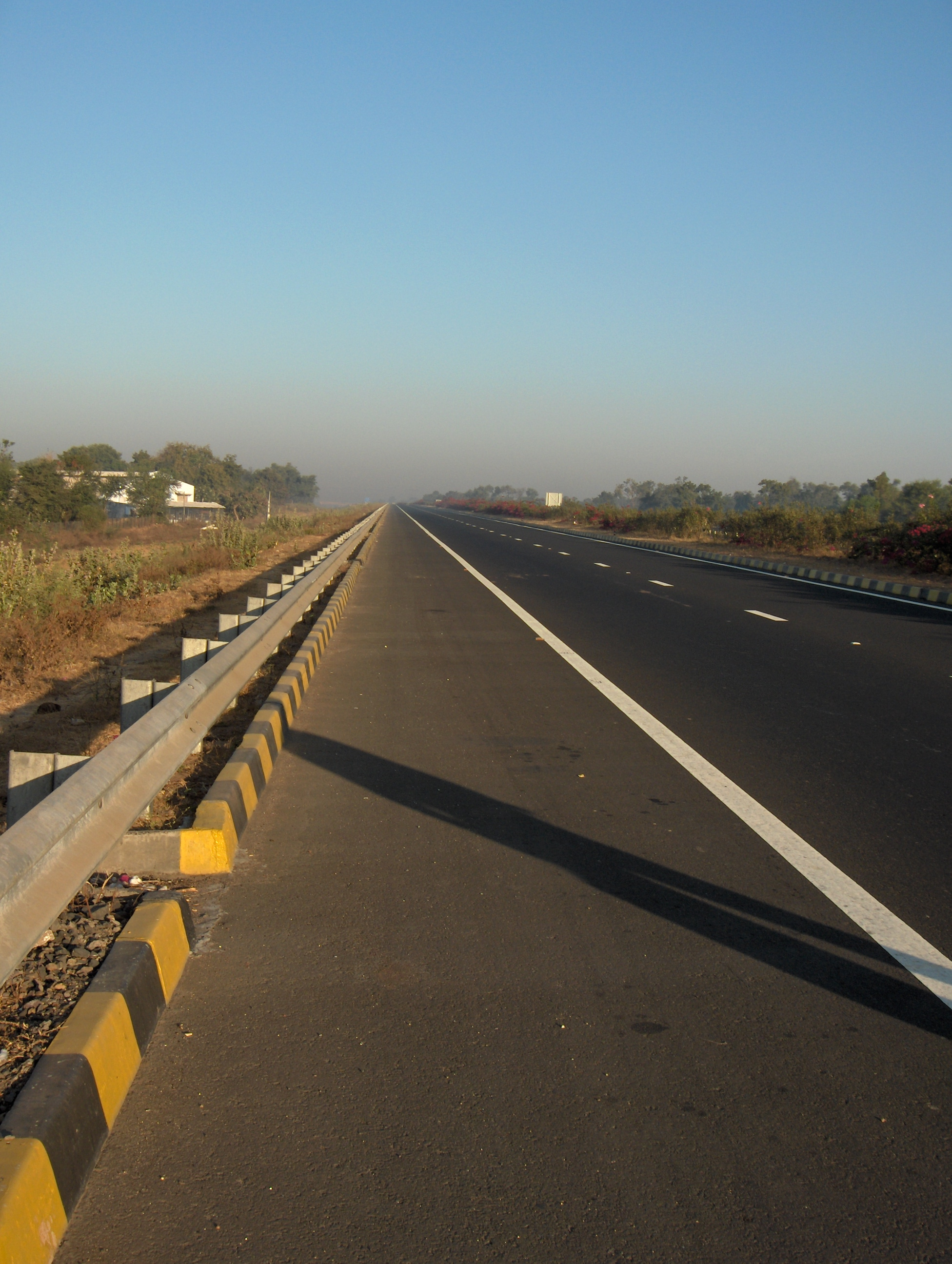 Ahmedabad-Vadodara Expressway Picture taken by me, Nichalp on 28-Jan-2006